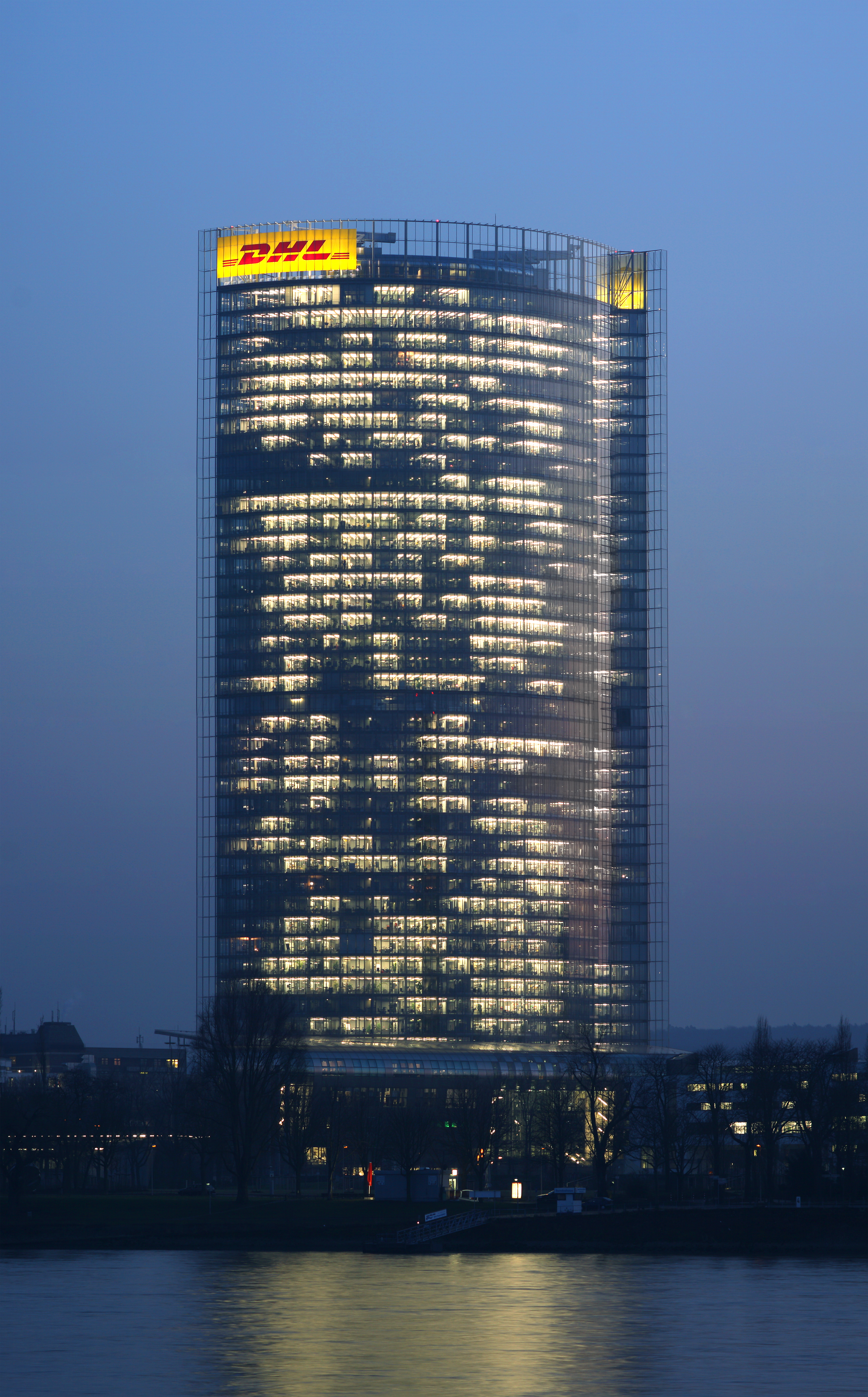 the Post Tower of Bonn (Germany) in Blue hour (image stitching)